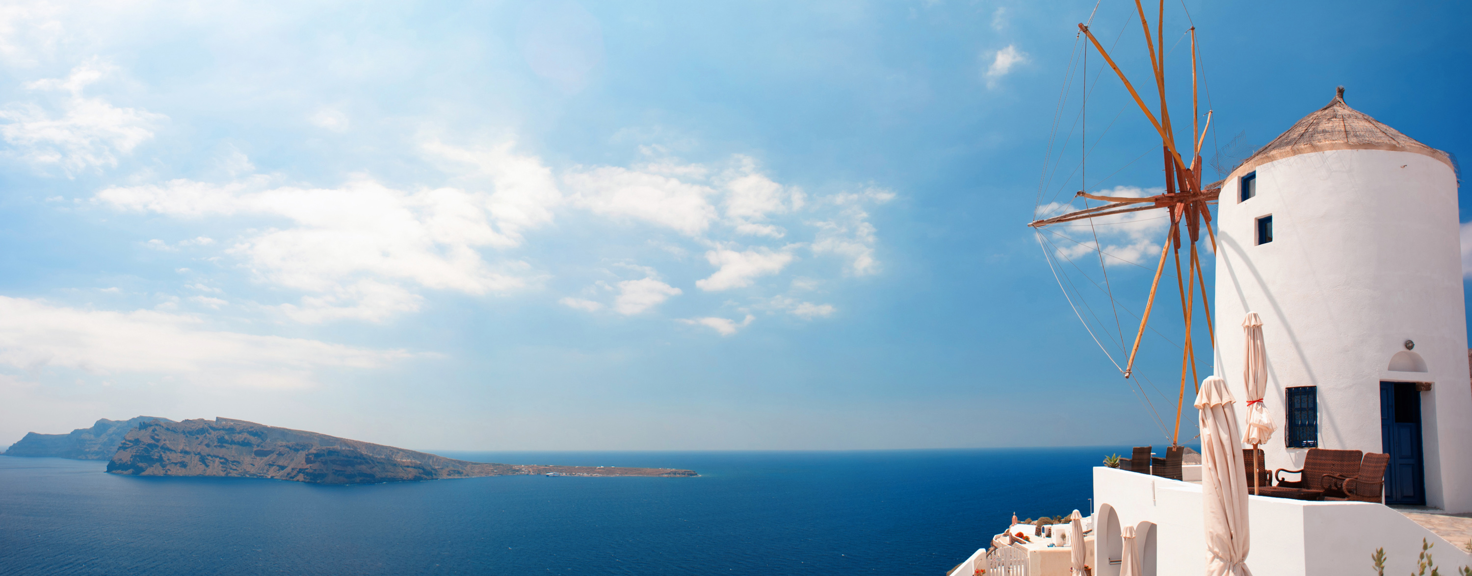 Oian coast waters (panoramic landscape). Santorini island (Thira), Greece.